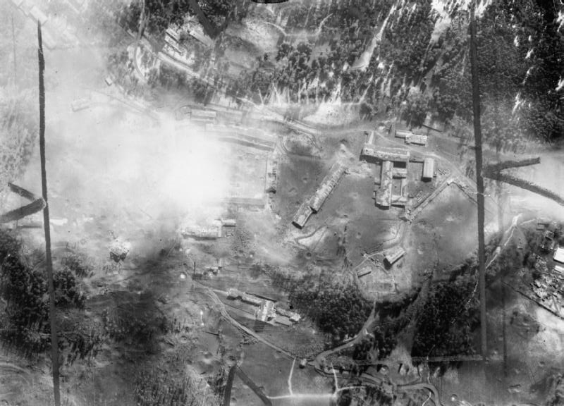 Royal Air Force Bomber Command, 1942-1945. Vertical aerial photograph taken during the daylight raid on Adolf Hitler's chalet complex and the SS guard barracks at Obersalzberg near Berchtesgaden, Germany, by 359 Avro Lancasters and 16 De Havilland Mosquitos of Nos. 1, 5 and 8 Groups. The SS barracks are at upper left, partly obscured by smoke from the attack. Hitler's chalet, the Berghof, is at lower centre, and the Pension Platterhof and Hitler's guest house are on the right. The bombing was reported to be accurate and effective.